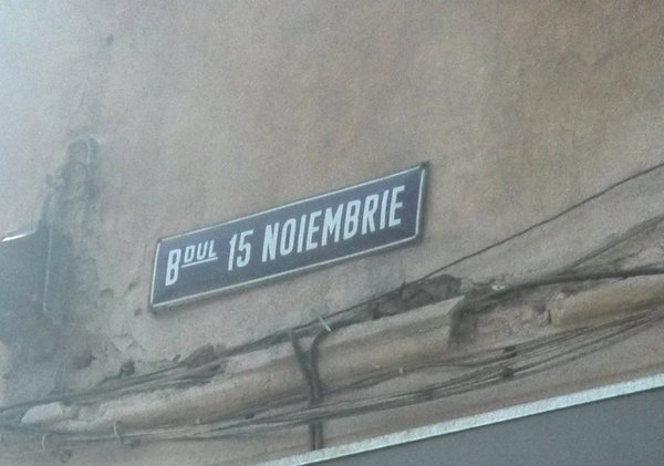 15 November street in Brasov in memory of the Brașov Rebellion